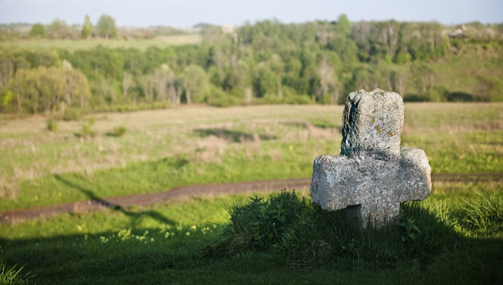 Cross at the entrance to the fortress in Izborsk